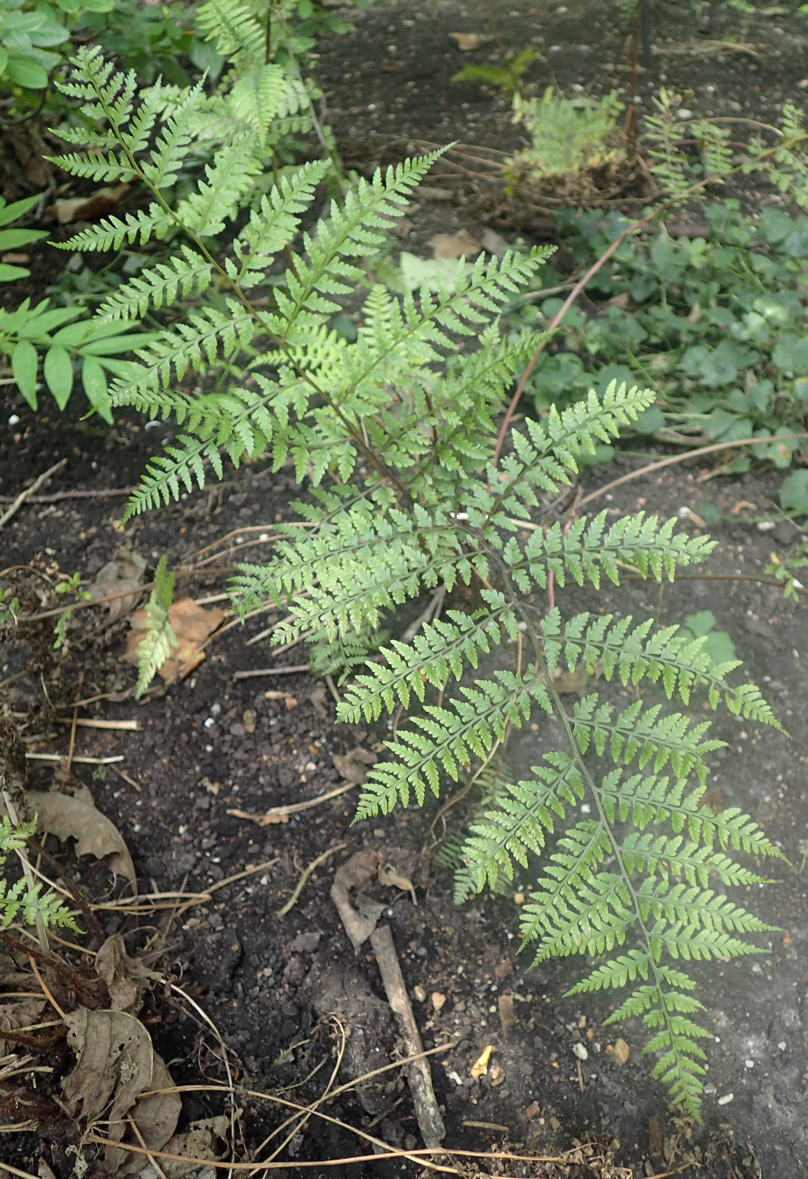 Athyrium vidalii in the Missouri Botanical Garden, St. Louis